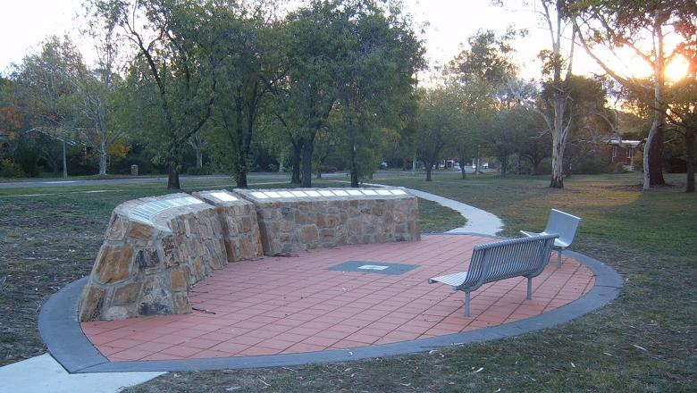 Category:Images of Canberra Summary A memorial to Australian recipients of the George Cross was opened in the Capital, Canberra, on 4 April 2001 by the Governor General of Australia, Sir William Deane. George Cross Park is in Blamey Crescent bounded by Moten Street, Campbell. I took this picture in April 2007.- Peter Ellis - Talk 19:51, 27 April 2007 (UTC)